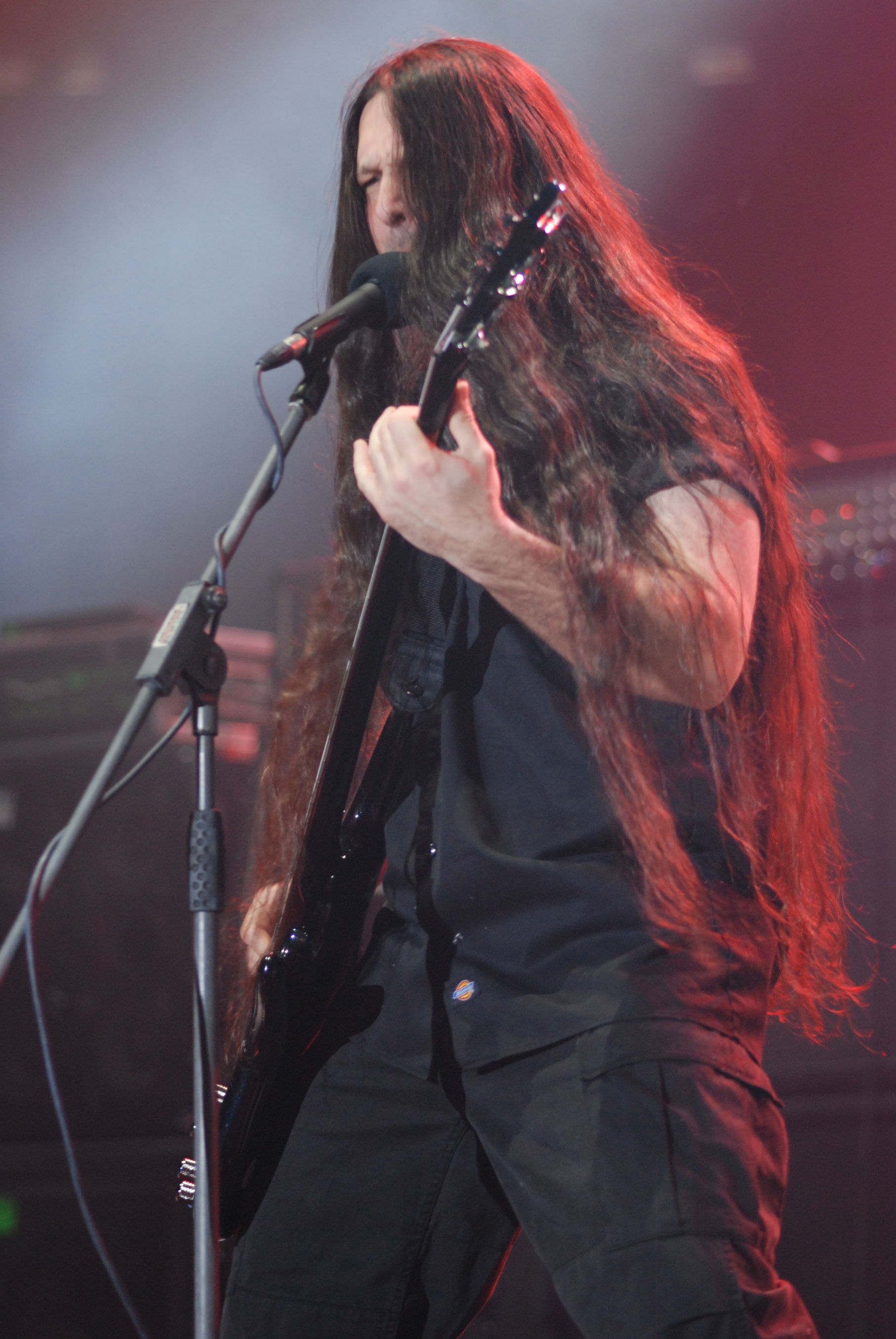 Ross_Dolan from Immolation during Metalmania 2008 festival